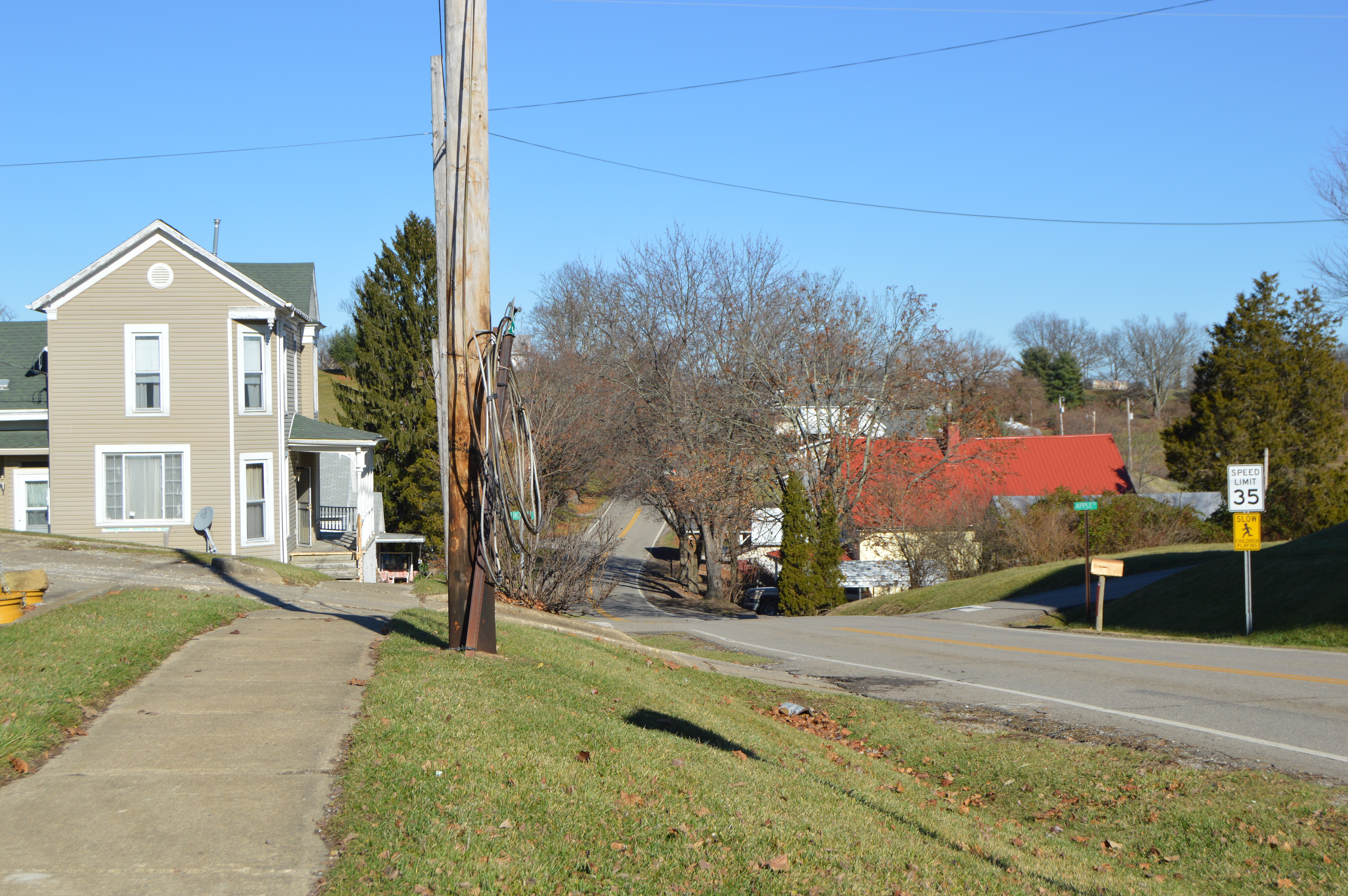 Looking north on Main Street (State Route 513) from the Cross Street intersection in central Summerfield, Ohio, United States.